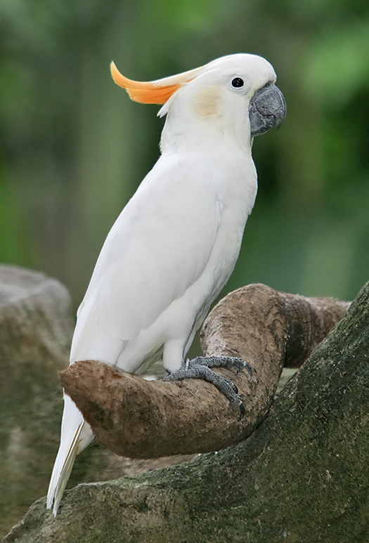 Citron-crested Cockatoo - Jurong Bird Park, Singapore